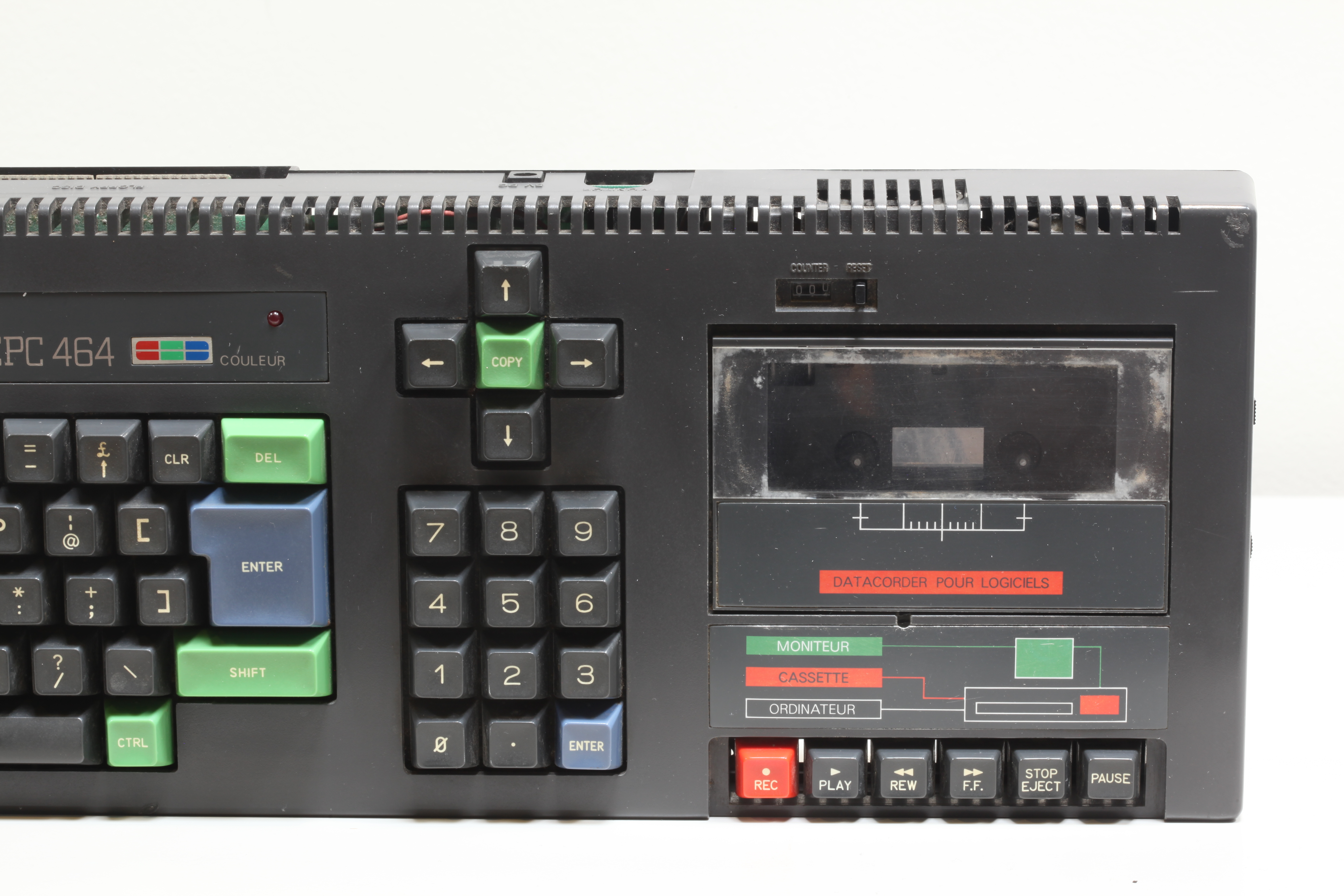 Amstrad CPC 464 computer. On display at the Musée Bolo, EPFL, Lausanne.